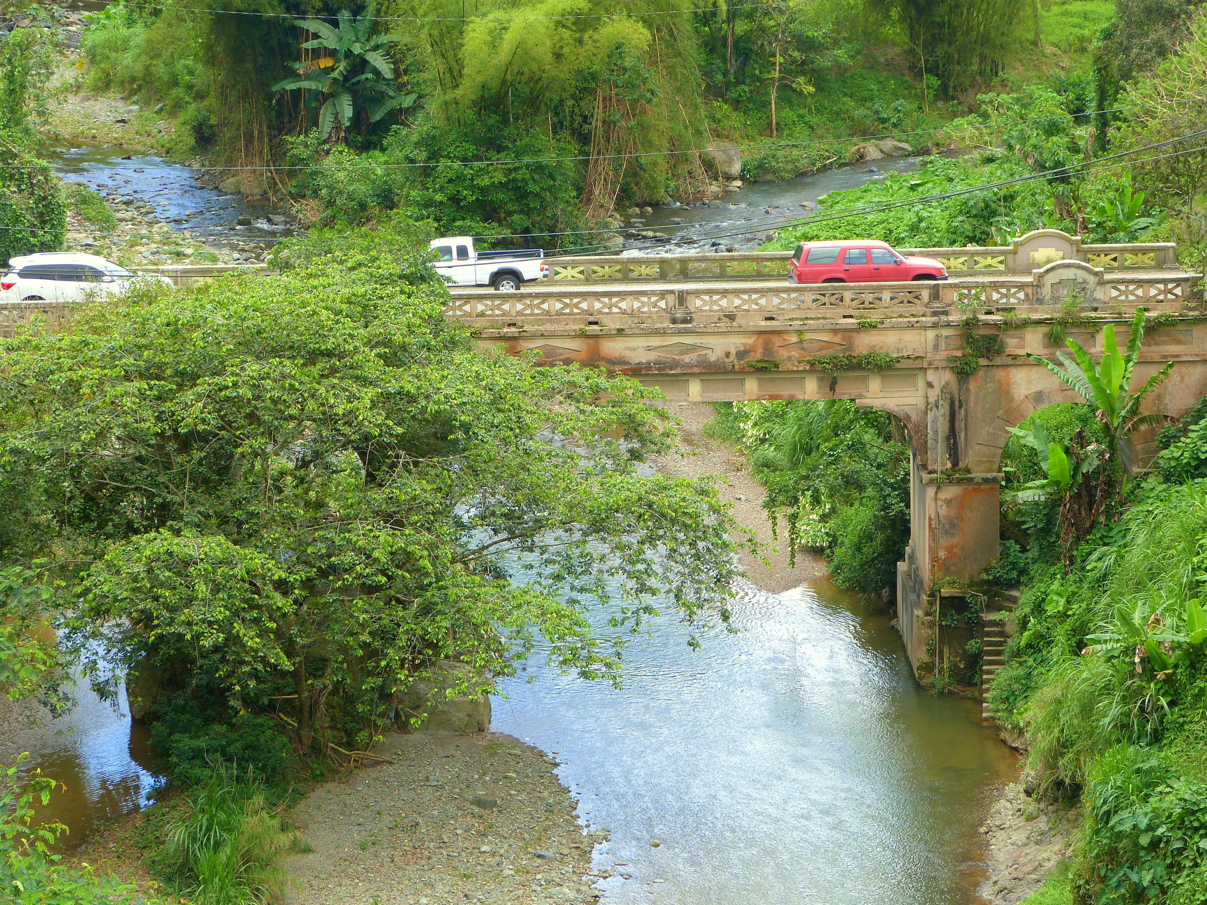 The historic Las Cabañas Bridge (built 1919), located on Puerto Rico Highway 135 at km 82.4, spanning the Río de las Vacas, in Adjuntas municipality, Puerto Rico, is listed on the U.S. National Register of Historic Places.